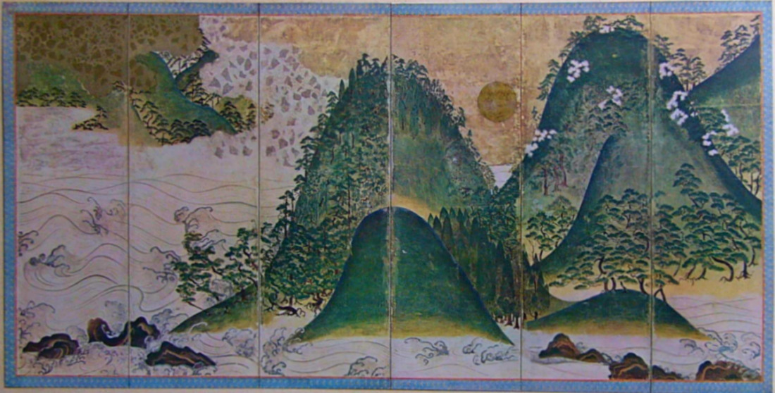 Jitsugetsu sansui-zu(Landscape with the Sun and Moon ) :Right Pair of Six Folded Screens ,Color, gold foil on paper, 1.47x 3.135m, 16th century JAPAN